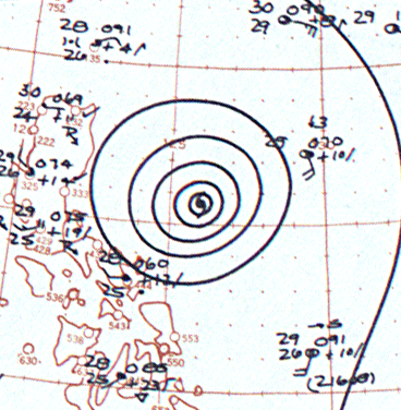 Surface weather analysis map of Typhoon Betty on May 24, 1961.